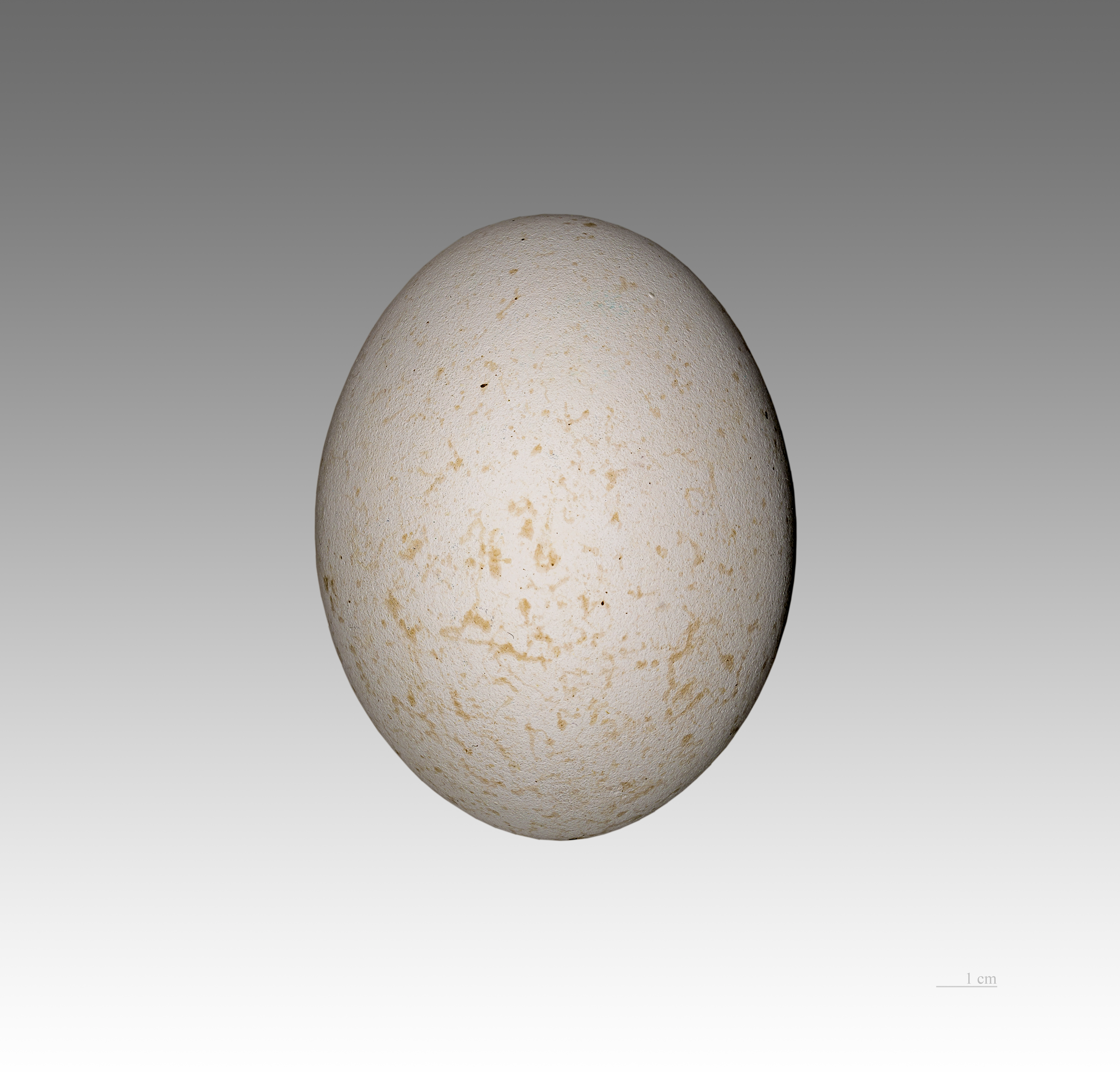 Egg of Rüppell's Vulture. Collection of René de Naurois /Jacques Perrin de Brichambaut. Locality: Northwest Senegal.